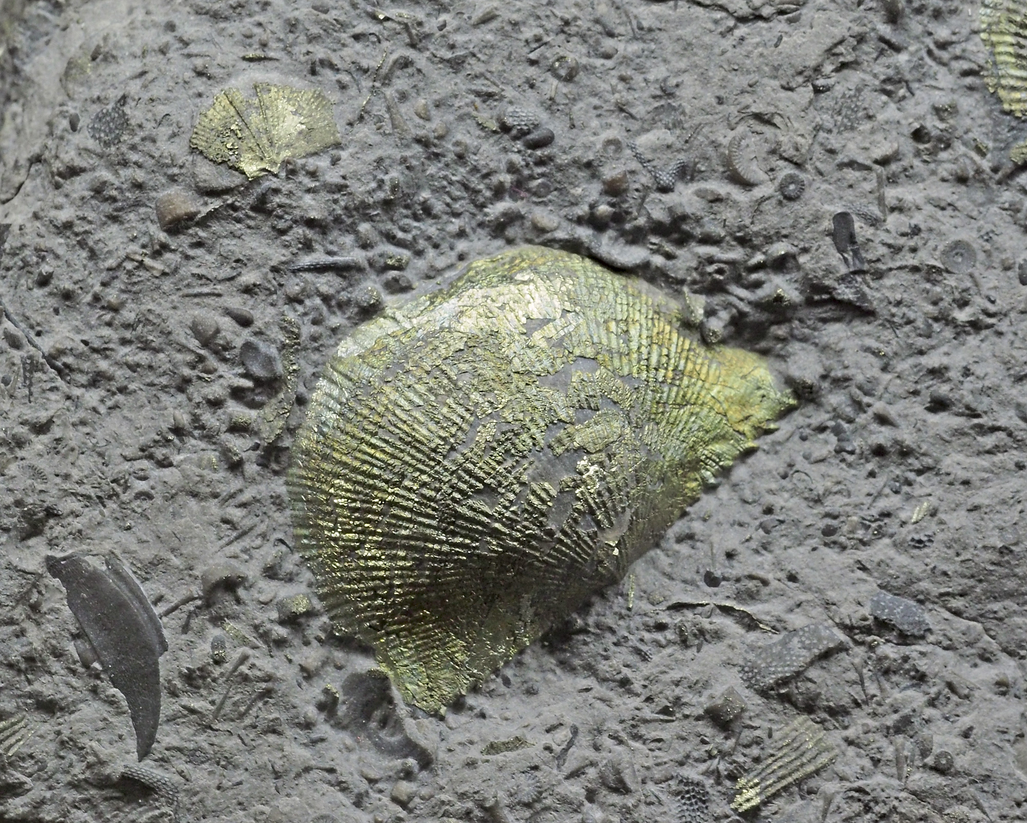 Devonochonetes sp., pyritized. Lucas Co., Ohio, USA. Museo Geominero, Madrid